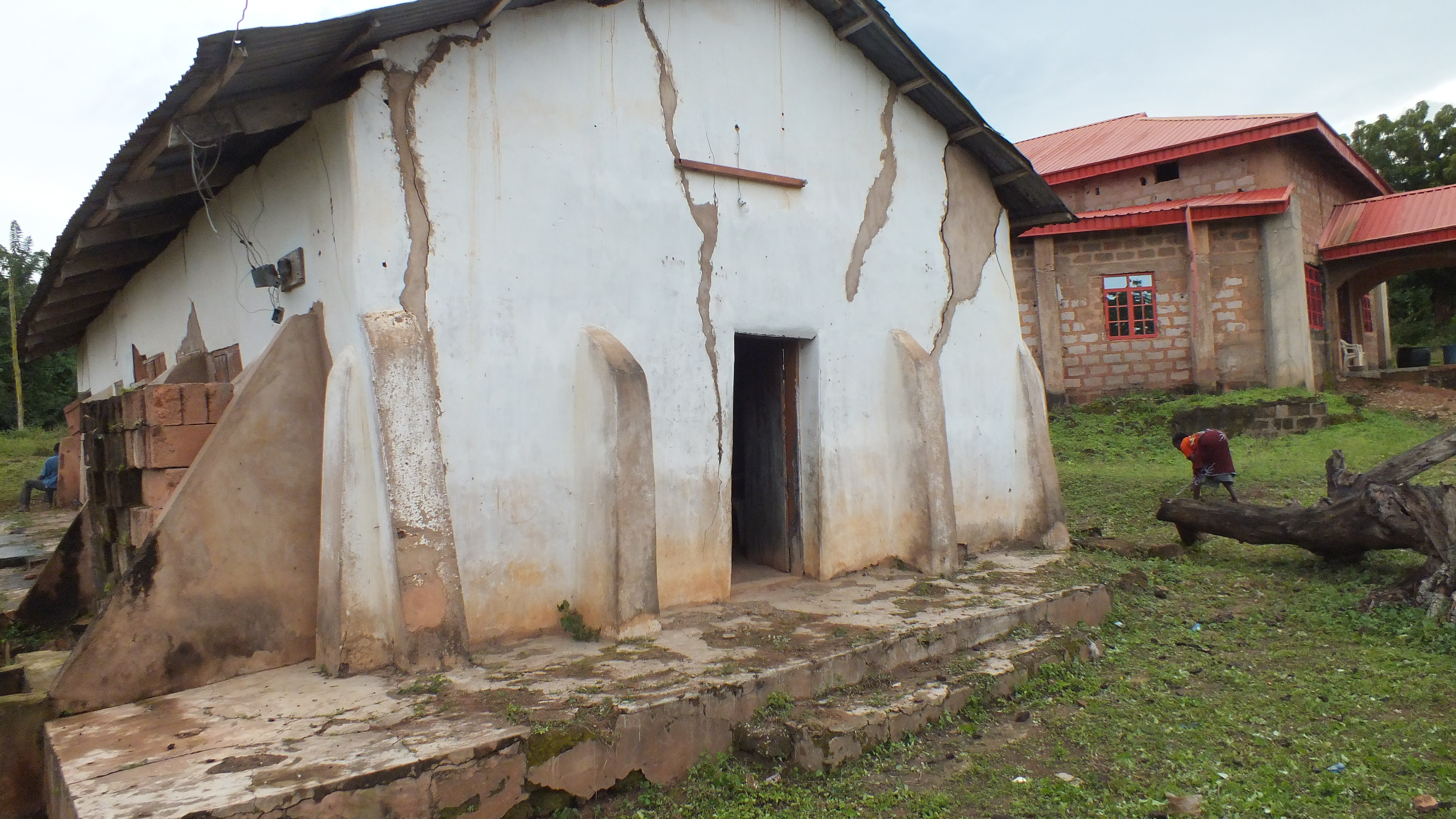 First Anglican Church built in 1936